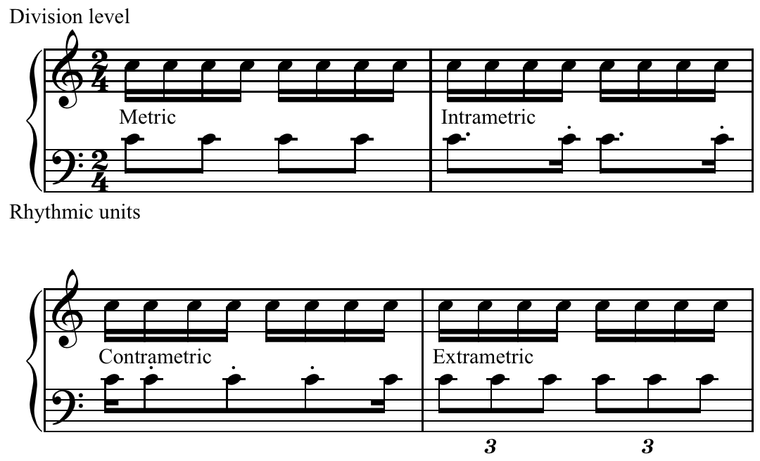 Rhythmic units: division level shown above and rhythmic units shown below.